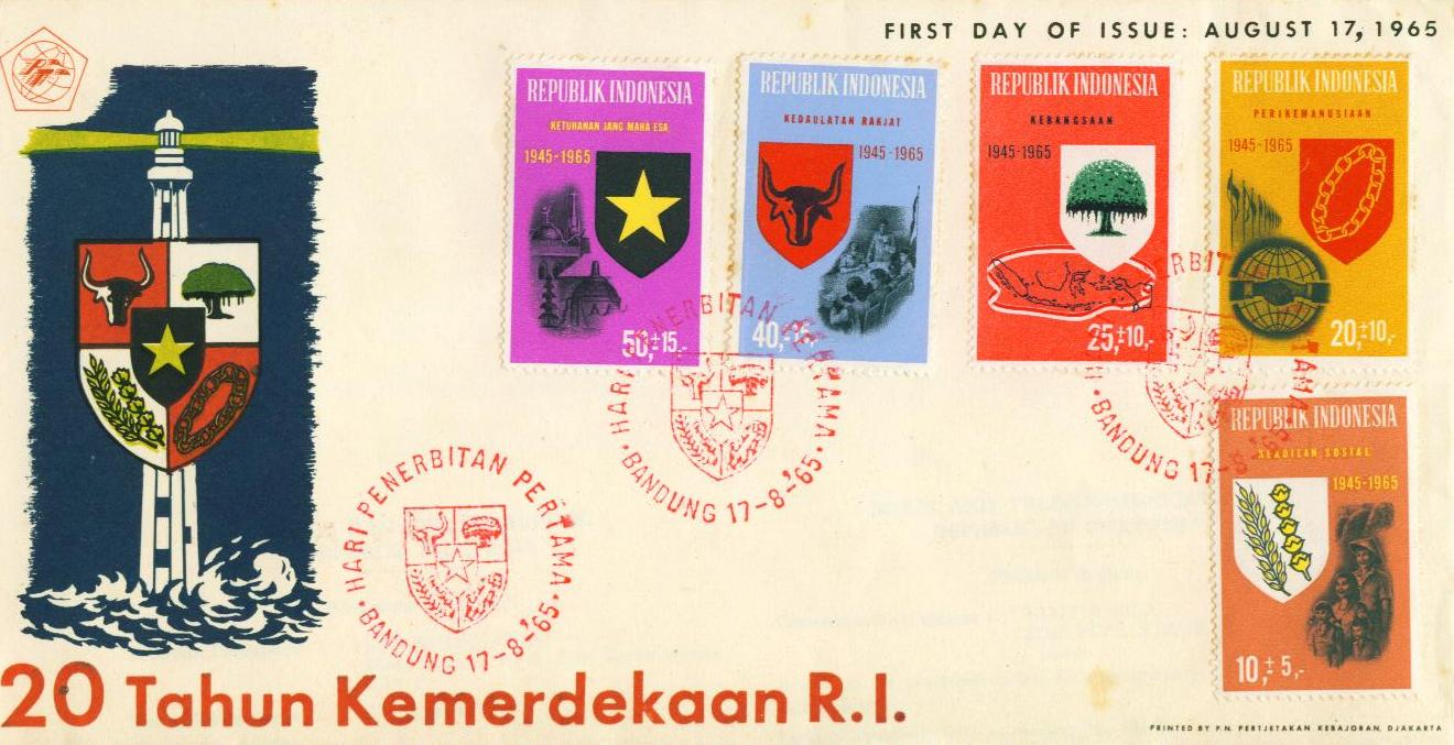 The first day cover of a series of 5 stamps that celebrate 20 years of the independence of Indonesia